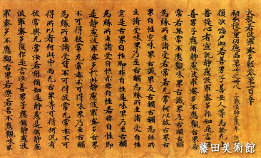 Great Perfection of Wisdom Sutra (大般若経, Daihannya-kyō) or Yakushi-ji Sutra (薬師寺経, Yakushiji-kyō)